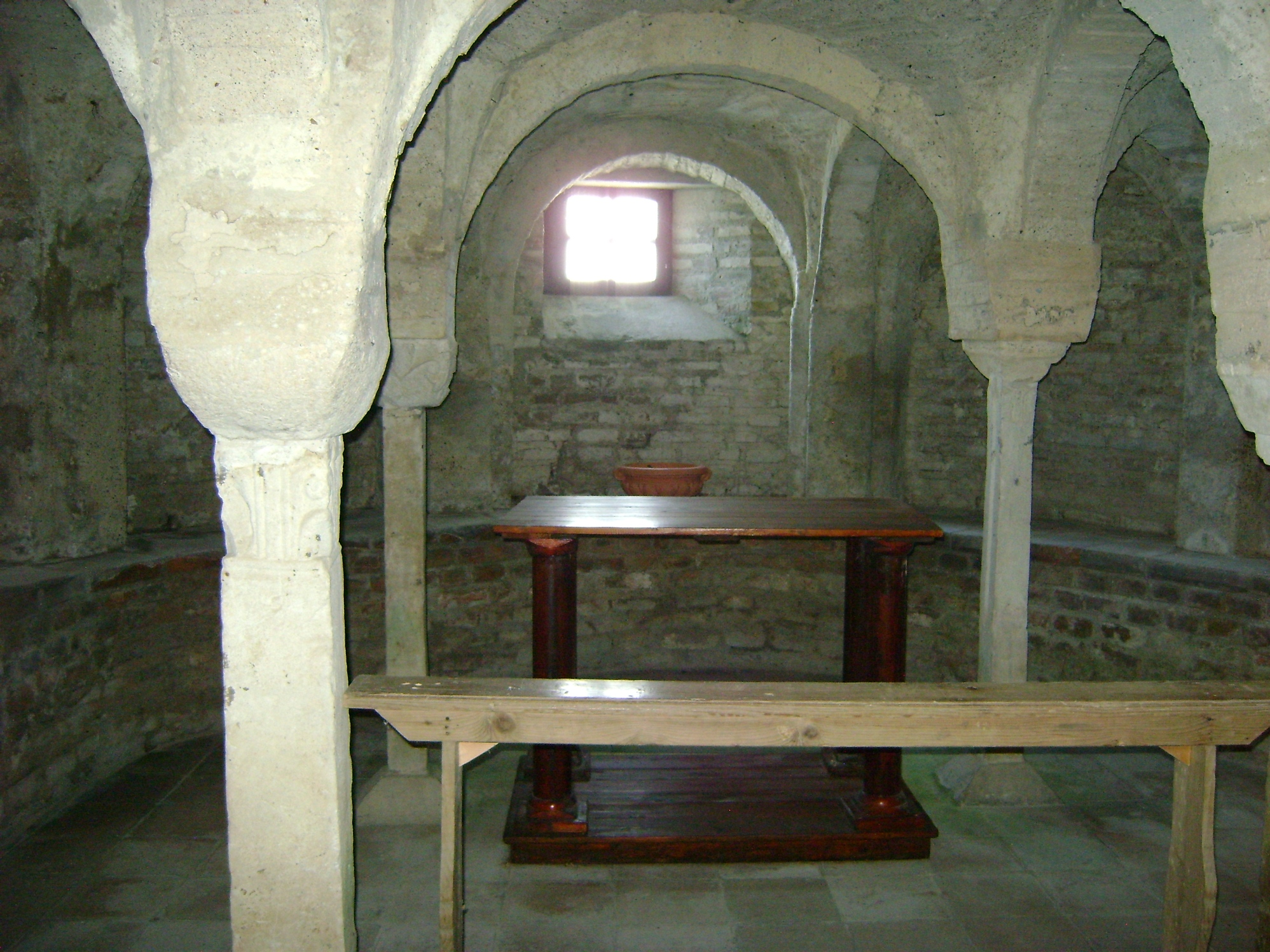 The crypt of the church of San Pietro in Trento, Ravenna, province of Ravenna, Emilia-Romagna